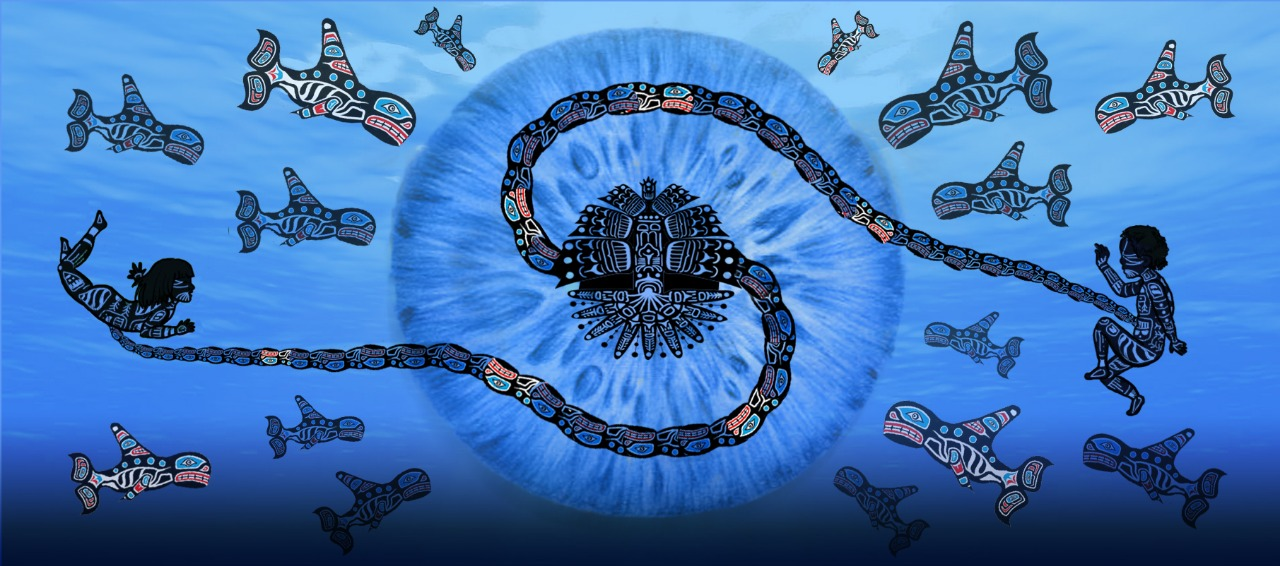 illustration of "The Song of Uvavnuk" (The Great Sea Song) by Fiann Paul and Natalie Caroline (low resolution version). Natalie Caroline is an artist and a psychologist. Icelandic polar explorer, Fiann Paul photographed indigenous people of the Arctic. He is also a student of Depth Psychology and an artist. In 2019 Fiann was the captain of a trans-oceanic rowing expedition across the Drake Passage called ‘The Impossible Row’. He recited The Song of Uvavnuk to his team upon arrival to Antarctica. The poem citing was documented by Discovery Channel. The journey and the experience of the arrival served as an impulse to create the artwork.